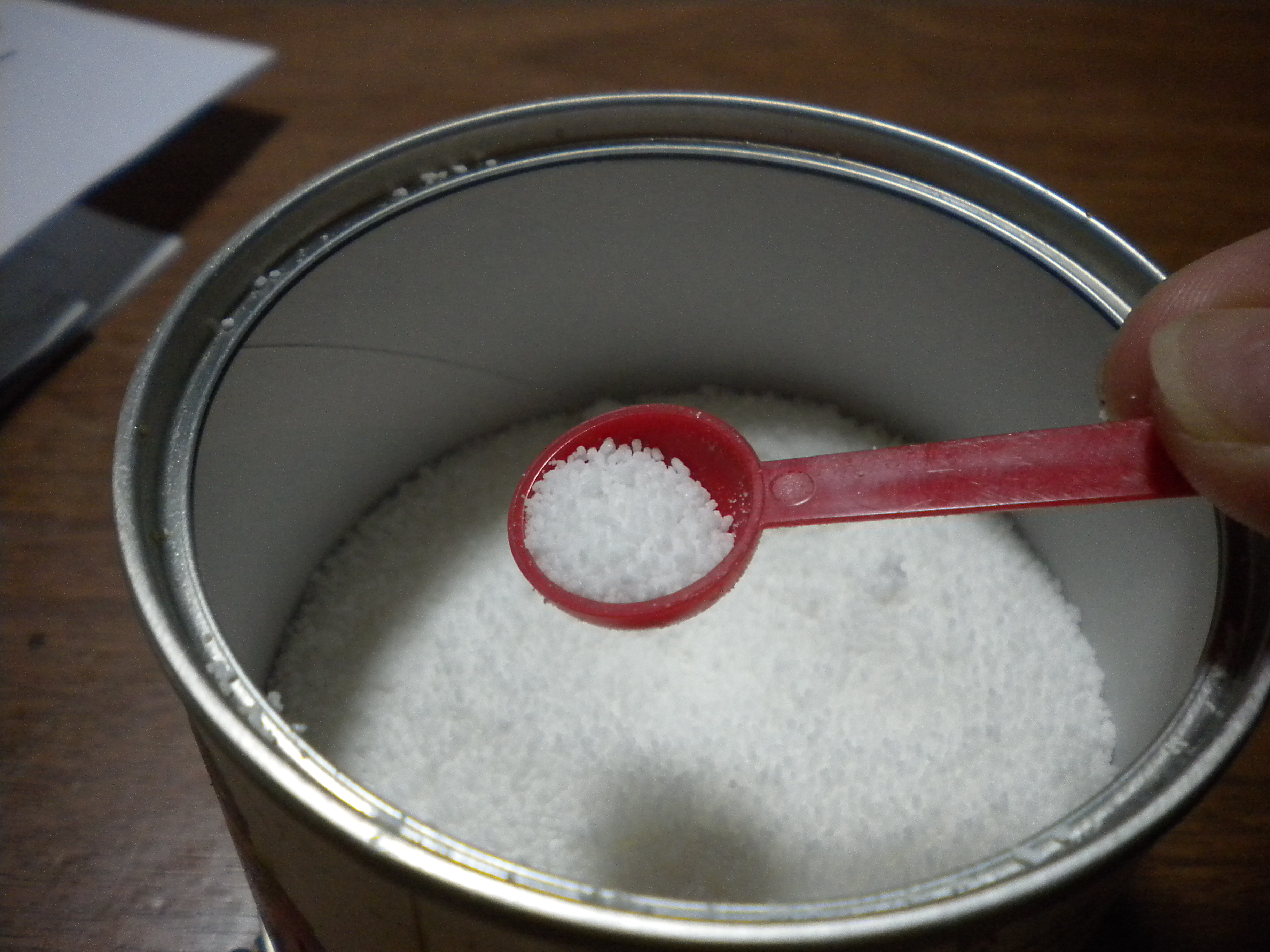 Vedan Super Seasoning MSG.